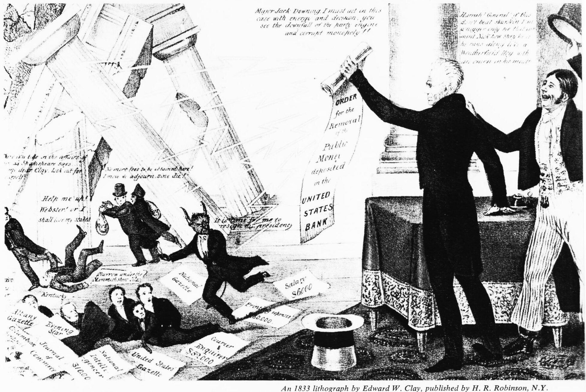 Lithograph by Edward W. Clay. Praises Andrew Jackson for his destroying the Second Bank of the United States with his "Removal Notice" (removal of federal deposits). Nicolas Biddle portrayed as The Devil, along with several speculators and hirelings, flee as the bank collapses while Jackson's supporters cheer.